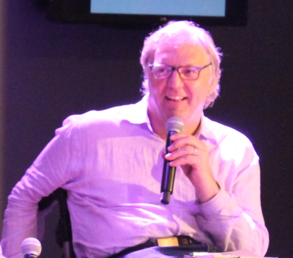 Dan Ariely, James B. Duke Professor of Psychology and Behavioral Economics, Duke University, Author, The Honest Truth About Dishonesty: How We Lie to Everyone – Especially Ourselves; Yael Melamede, Director and Producer, (Dis)Honesty - The Truth About Lies; Jonathan Haidt, Thomas Cooley Professor of Ethical Leadership, New York University, Author, The Righteous Mind: Why Good People are Divided by Politics and Religion; John Hockenberry, Host, The Takeaway, WNYC